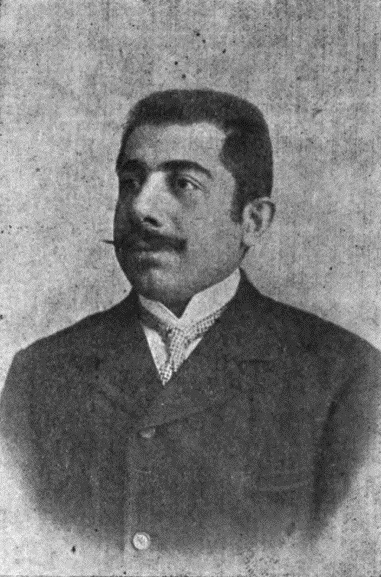 Erukhan (Armenian: Երուխան) (1870-1915) was the pen name for Yervant Srmakeshkhanlian (Armenian: Երուանդ Սրմաքէշխանլեան). He was an Armenian writer of the late 19th and early 20th century. He was arrested, tortured, and killed by the Turkish authorities during the Armenian Genocide.